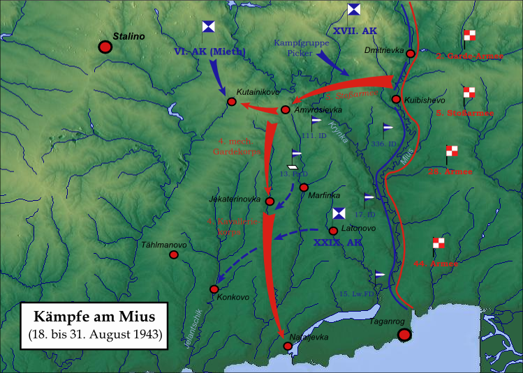 German Map showing the combat along the Mius River in August 1943.